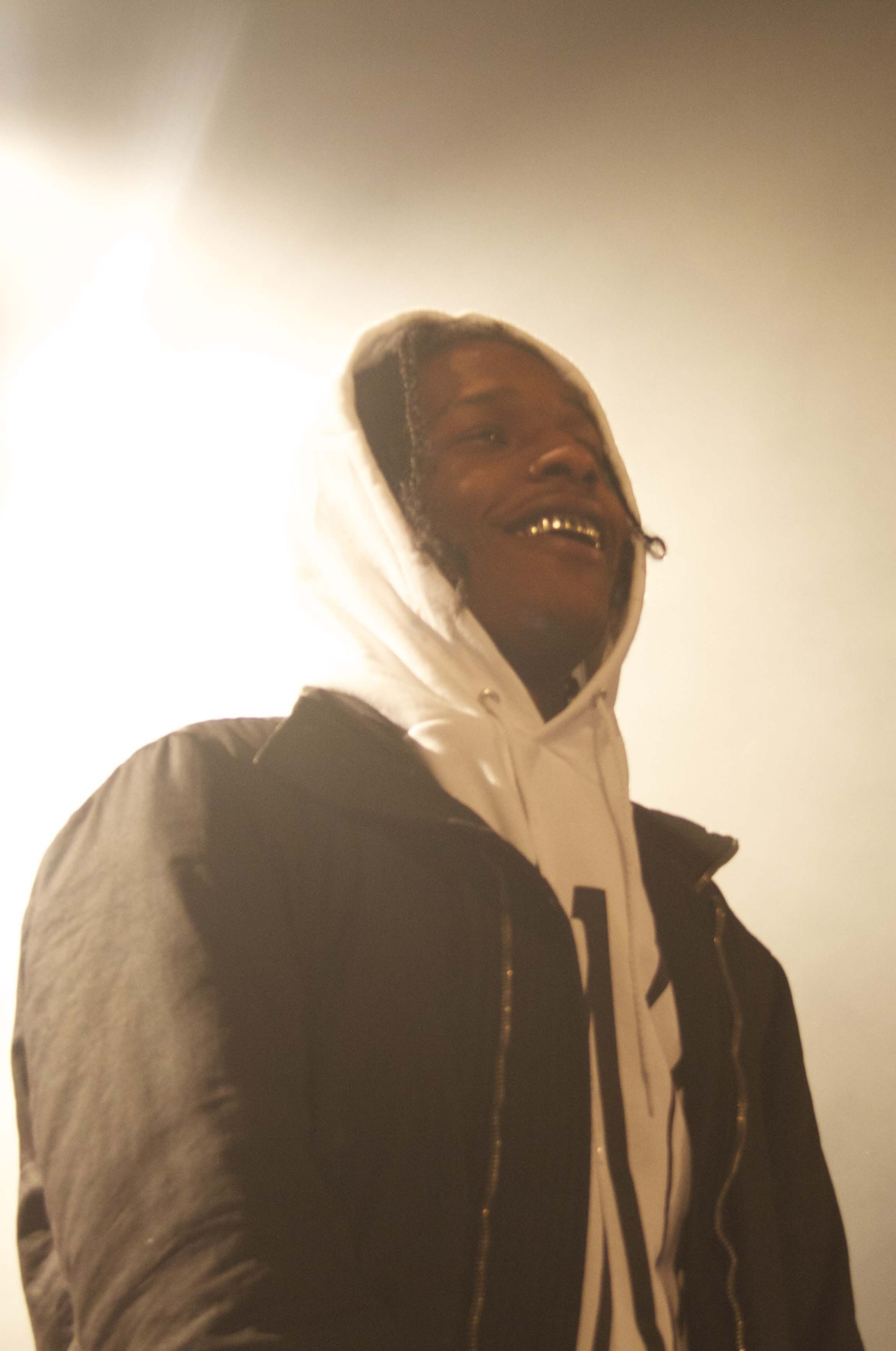 A$AP Rocky in 2013